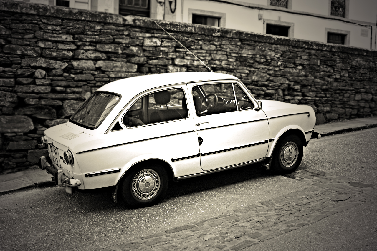 spanish tech.